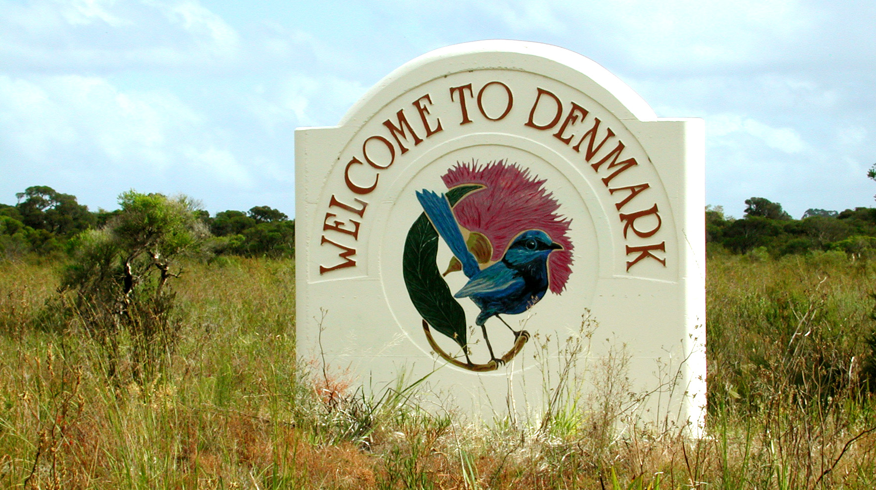 Denmark sign with logo along the South Coast Highway near Denmark WA. The logo shows a Splendid Blue Wren and a Red Flowering Gum.